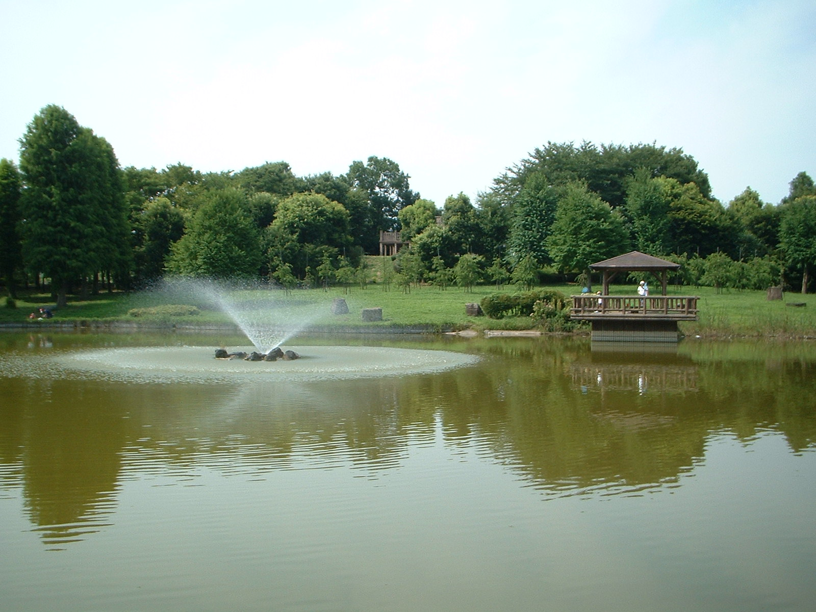 Oike pond in Shiroyama Prk, Okegawa City, Saitama Prefecture, Japan